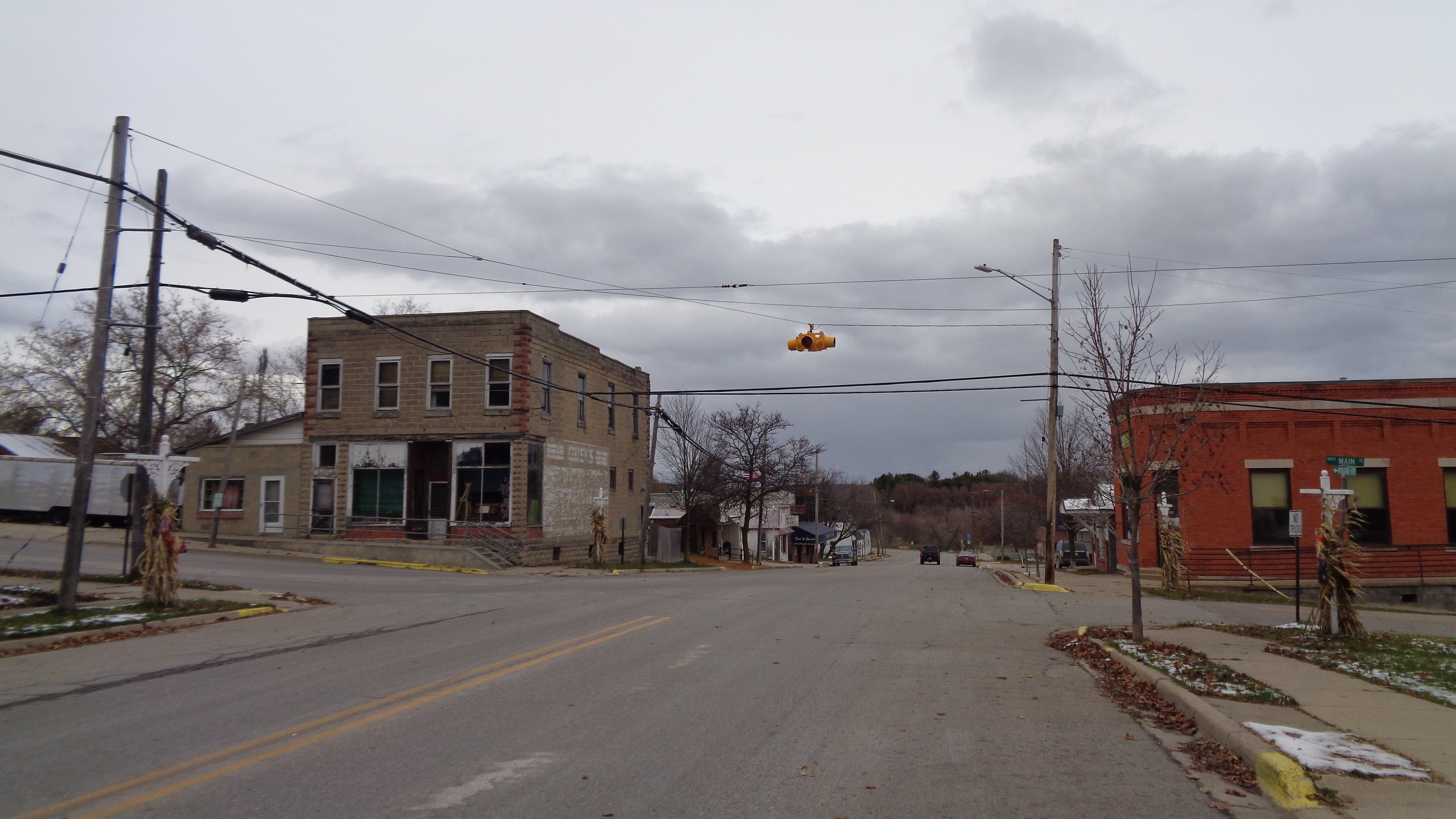 Depicted place: Wolverine